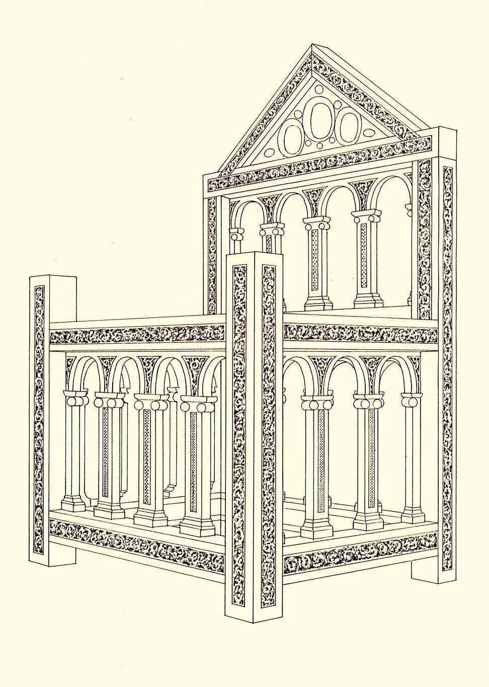 Reconstruction of the carolingian throne later identified with the chair of Saint Peter (Cathedra Petri)